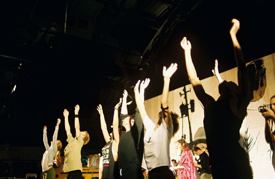 Rachel Mason, Ambassadors performance at Park Avenue Armory